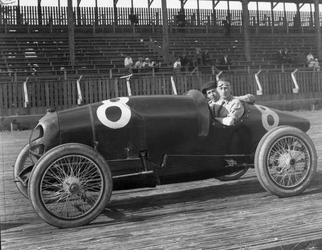 Auto racer Art Klein at the Tacoma Speedway. He is aboard the #8 Frontenac along with his riding mechanic, or "mechanician," S. McGarigle. Mr. Klein drove one of the two Frontenacs in the 1920 225-mile race at the Tacoma Speedway; the other was helmed by Chicago millionaire Joe Boyer, Jr. The Speedway had been spruced up with large new grandstand (shown above), fences, pits, water tower, renewed board track and three automobile entrances for spectators. Top drivers including Cliff Durant, Ralph DePalma, Tommy Milton, Roscoe Sarles and Ralph Mulford made the long trek to Washington to compete in the ninth annual event. Art Klein finished fourth after eventual winner Milton, Ralph Mulford and Eddie Hearne. (TDL 7-6-20, p. 1+-article; Tacoma Sunday Ledger, 7-4-20, 1C, 3C-History of the track)